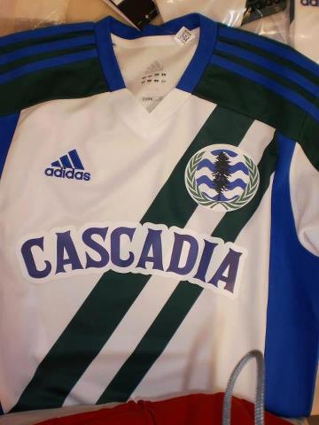 Cascadia National Team kit version 1